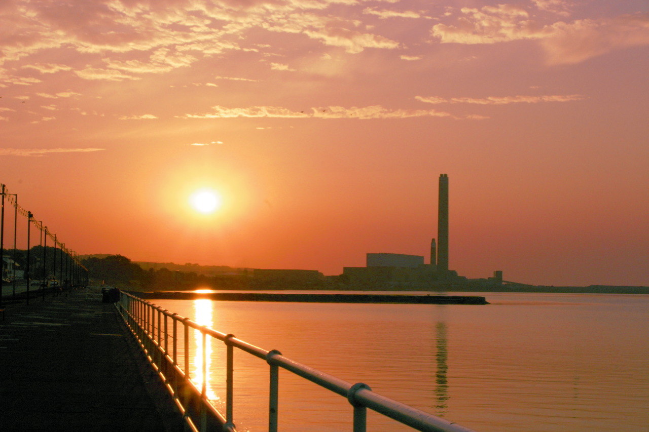 Kilroot power station from a distance